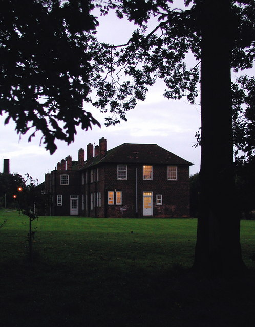 Winestead Hall, Winestead, East Riding of Yorkshire, England.The mansion house at Red Hall Estate known as Winestead Hall was destroyed by fire in the early part of the 20th century and of the original 18th century buildings only the stable block and a walled garden remain. From the 1930s to the mid 1980s the site was used as a mental hospital and most of the present day buildings were built for this purpose between the 1930s and the 1960s. From 1989 to 1998 Winestead Hall was a residential school for disadvantaged children and young people. It is currently home to the 'College for International Co-operation and Development'.